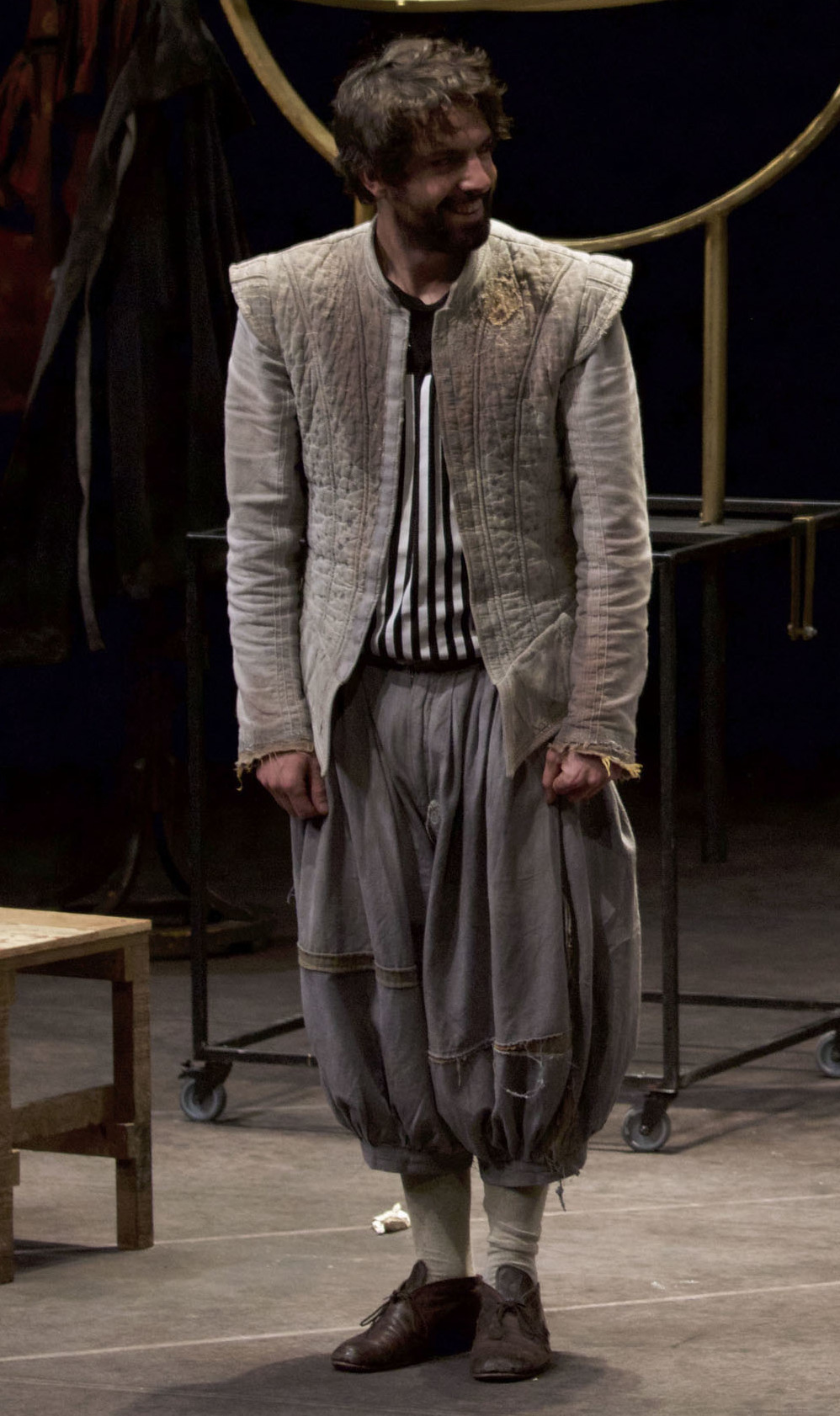 Domingo 22 de octubre de 2017En el Teatro Helénico, del Centro Cultural del mismo nombre, Eduardo Vázquez Martín, secretario de Cultura de la Ciudad de México y el actor Héctor Bonilla, develaron la placa de la última función La Desobediencia de Marte, del escritor Juan Villoro, dirigida por Antonio Castro e interpretada por Joaquín Cosío y José María de Tavira.Fotografía: Milton Martínez / Secretaría de Cultura CDMX